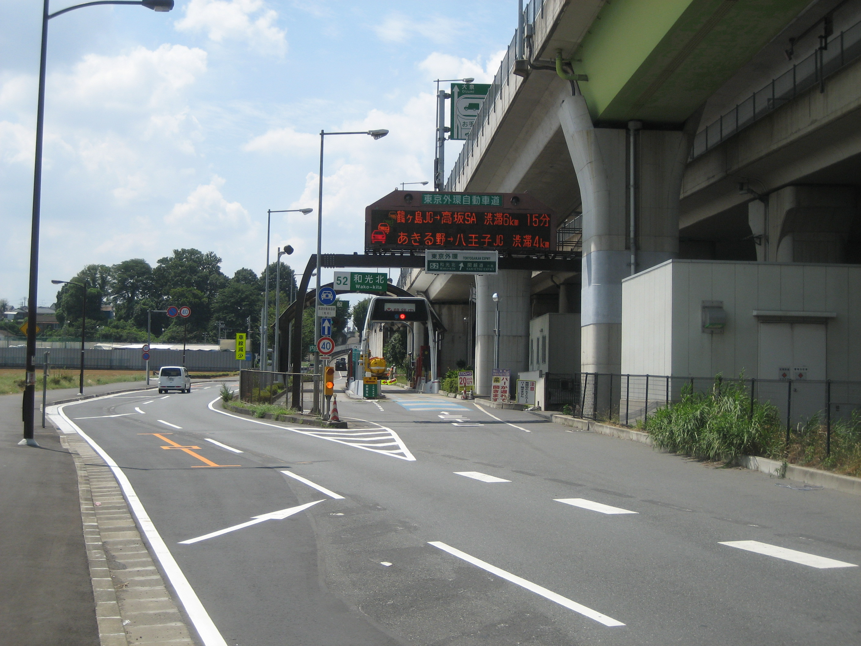 Wako-kita Interchange on the Tokyo Gaikan Expressway